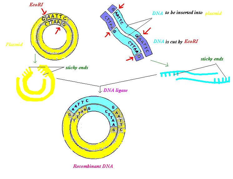 recombinant DNA